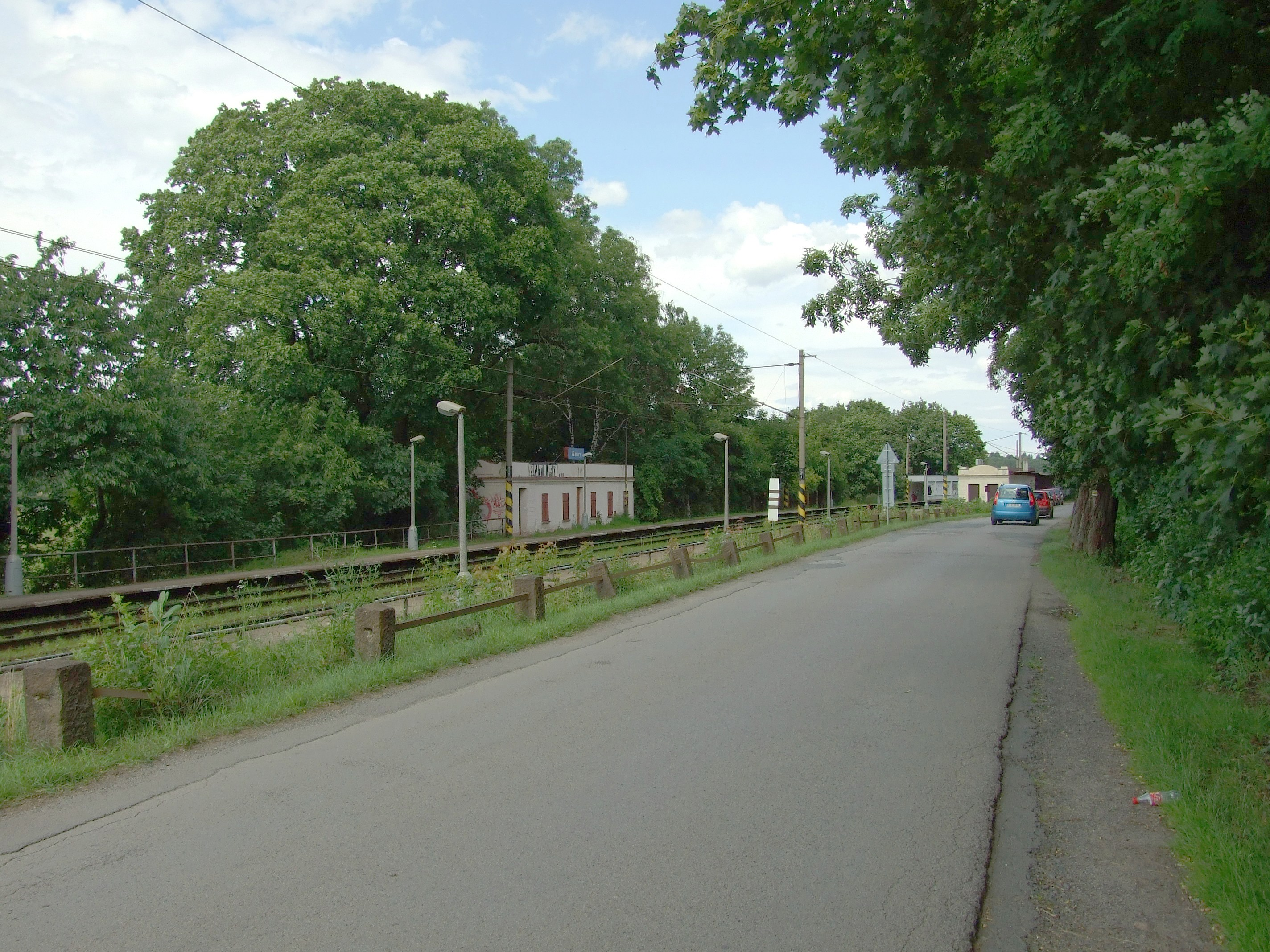 Všenory, Prague-West District, Central Bohemian Region. U silnice street, a train stop.